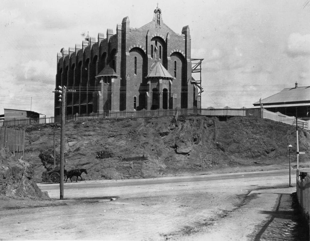 Construction of St Brigid's Church, Red Hill, Brisbane, 1914 St Brigid's church nearing completion. Scaffolding can be seen on the far side of the building. The church was dedicated in August 1914.